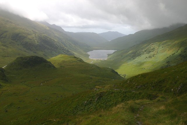 Mam Barrisdale. The slopes of Mam Barrisdale are in the darker foreground, whilst Loch an Dubh-Lochain appears in the distance.